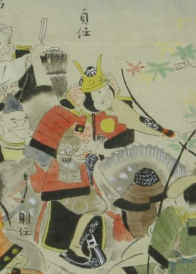 Abe no Sadatou